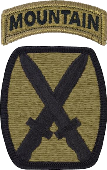 Patch of the United States Army 10th Mountain Division (Scorpion W2)